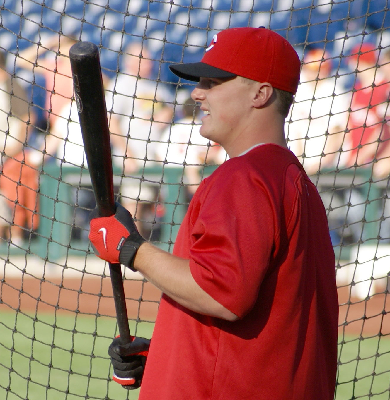 Description Jay Bruce preparing to take batting practice before playing the Phillies. Date06/02/2008SourceI created this work entirely by myself.AuthorBlevine37 (talk) 19:33, 10 June 2008 . . Blevine37 . . 1,331×1,367 (1.27 MB) Jay Bruce preparing to take batting practice before playing the Phillies.